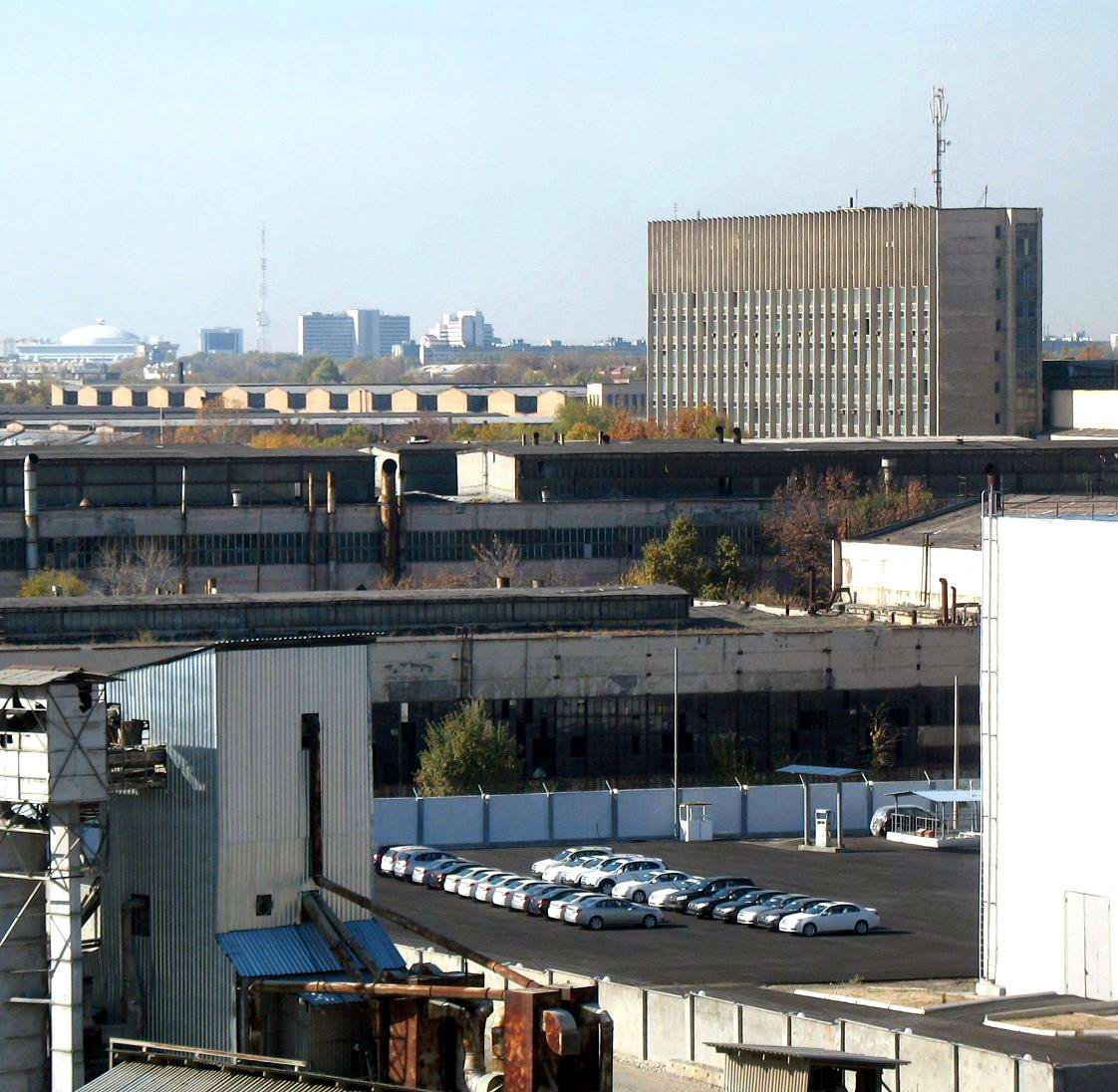 Administratif building, depots of the company GAO TAPOiCH, Tashkent